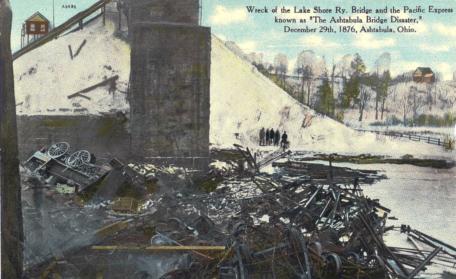 Postcard photo from the Ashtabula River Bridge disaster that occurred in 1876.